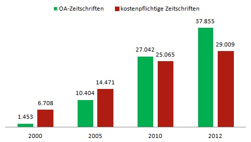 ezb (= electronical journal library)